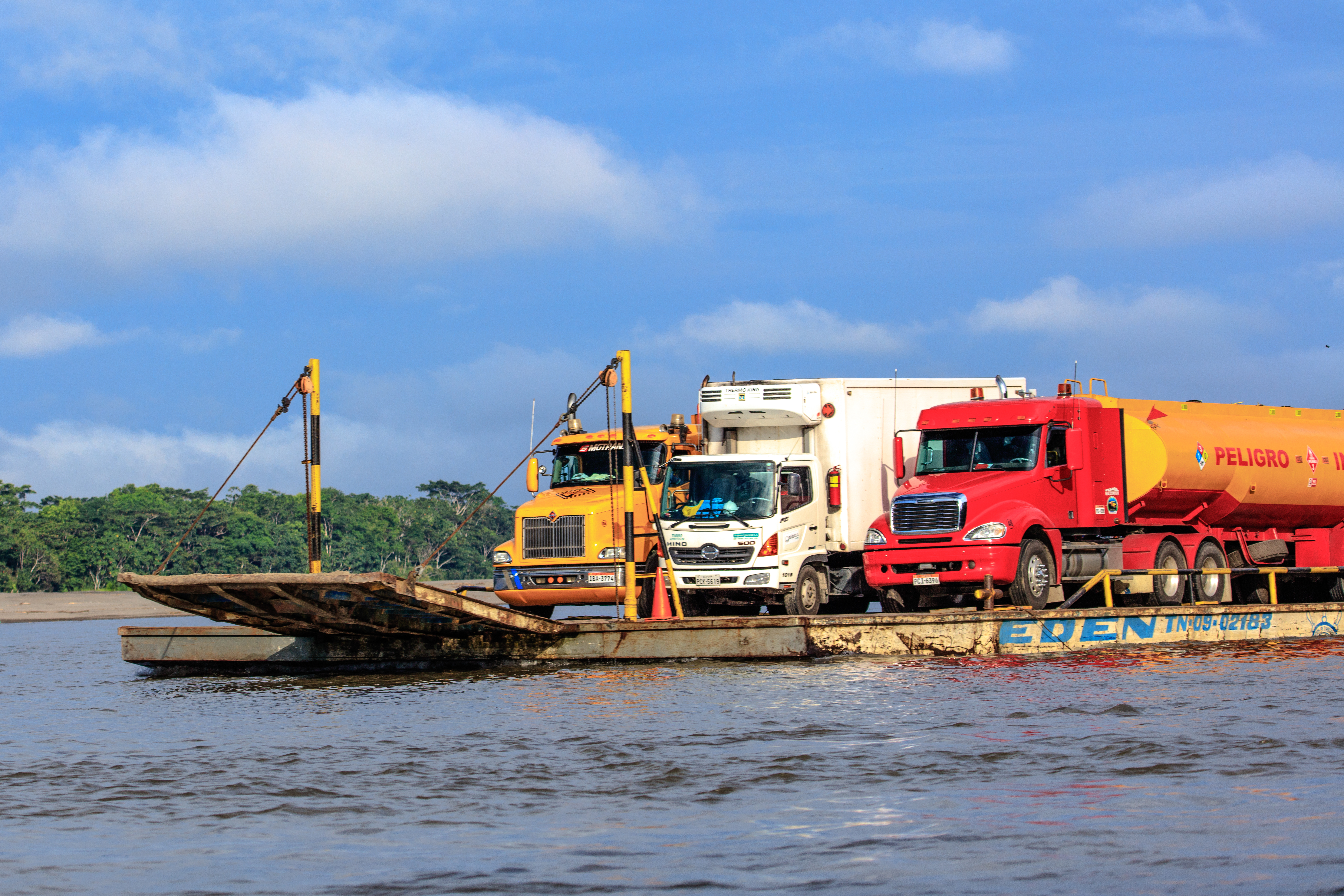 4 day trip to La Selva Lodge on the Napo River in the Amazon jungle of E. Ecuador...industrial traffic (Gas & Oil) along the River...